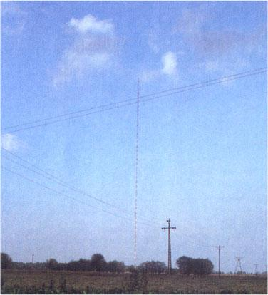 Warsaw Radio Mast. I made this photograph in 1989 and I want to donate it to Wikipedia in memory of this masterpiece, which unfortunately exists no more! Poland has very good architecture.